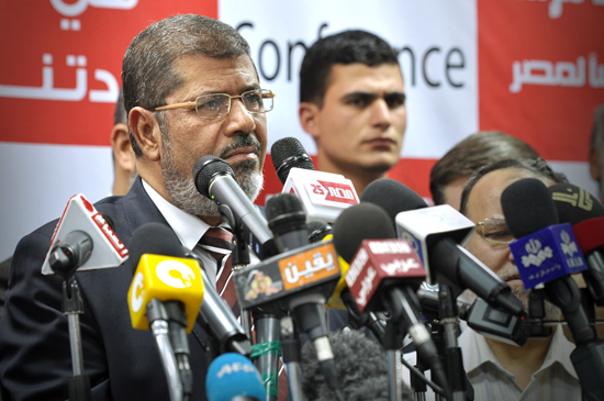 Mohamed Morsi at the press conference on June 18, 2012 as he announces himself president, after the second round of Egypt's presidential elections.